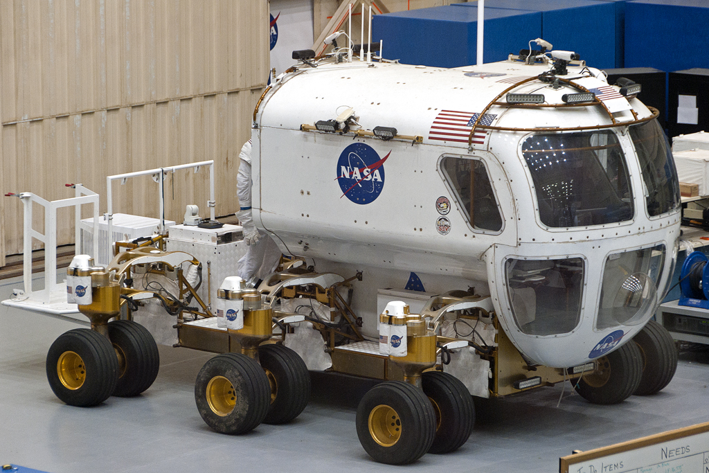 Allready seen in top gear where James May drives this moon vehicle round the NASA grounds in Houston